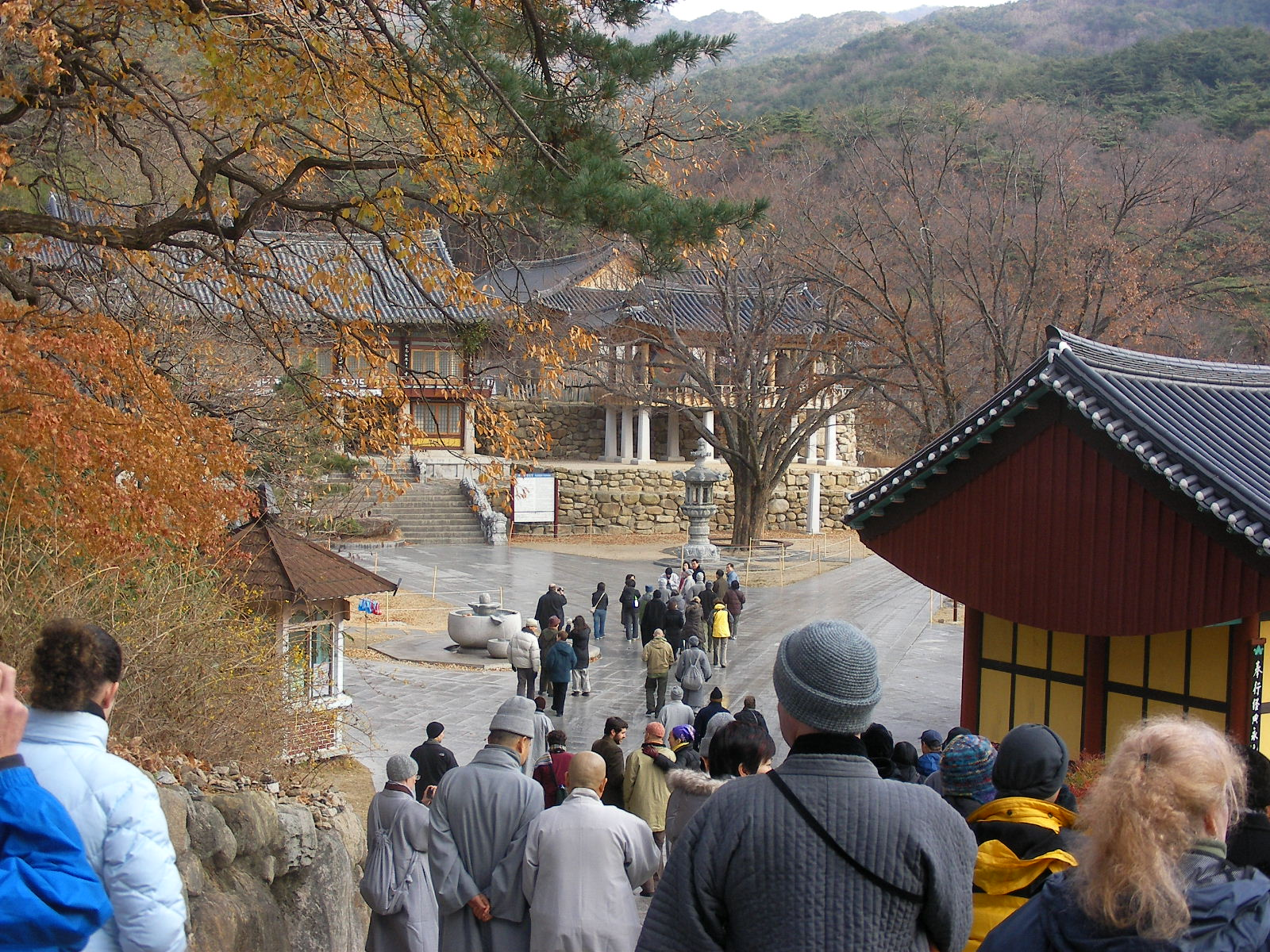 Donghwasa, a Buddhist temple in the northern Daegu, South Korea